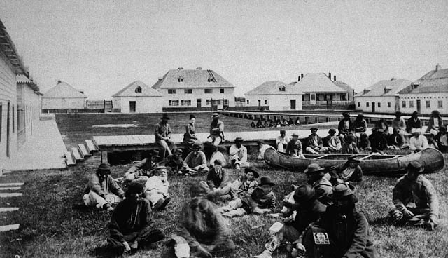 Inside the fort, Hudson's Bay Company post, Norway House, NWT (now Manitoba).